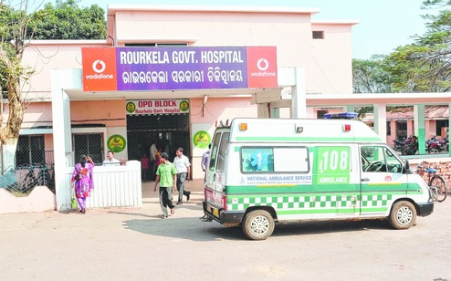 Hospital